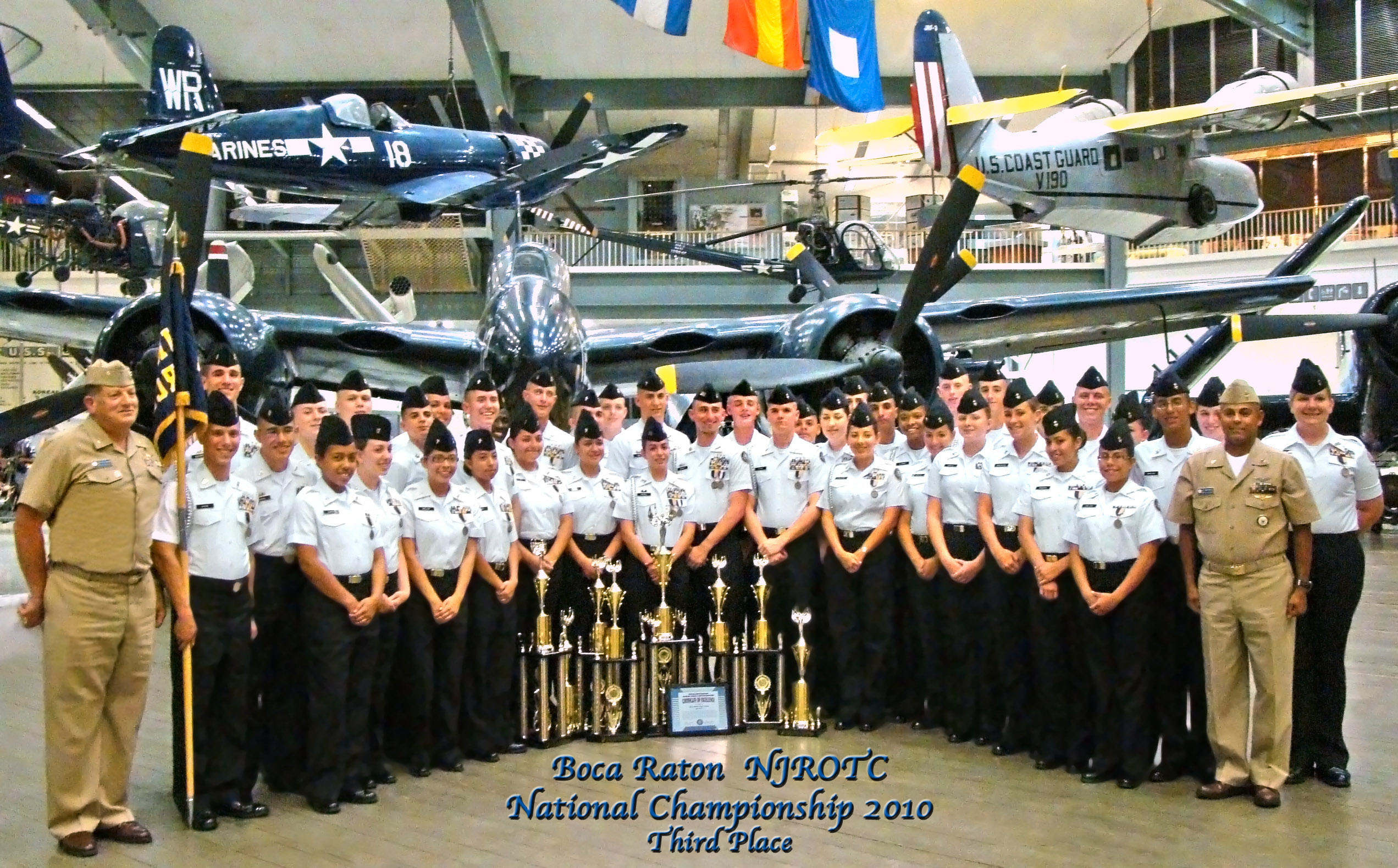 The Boca Raton NJROTC nationals '10 competing team